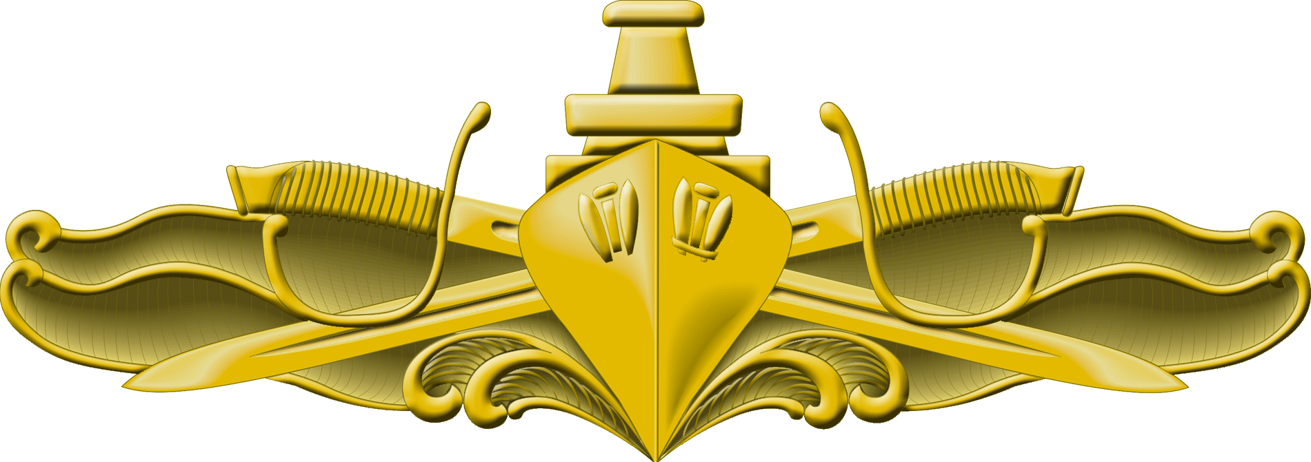 The Surface Warfare Officer Insignia. A gold embroidered or gold metal pin with the bow and superstructure of a modern naval warship superimposed over two crossed naval swords on a background of ocean swells.